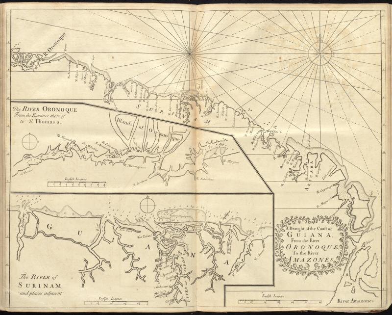 Zoom into this map at . Publisher: W. Mount and T. Page Date: 1737 Location: French Guiana, Guyana, Suriname Dimensions: 44 x 56 cm. Scale: [ca. 1:234,000] Reference: Phillips, 1157 Call Number: G1106.P5 E54 1737